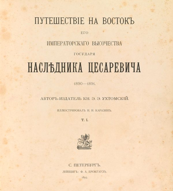 UKHTOMSKY, E. The Account of Travels Made by His Imperial Highness Tzesarevich to the East, 1890–1891